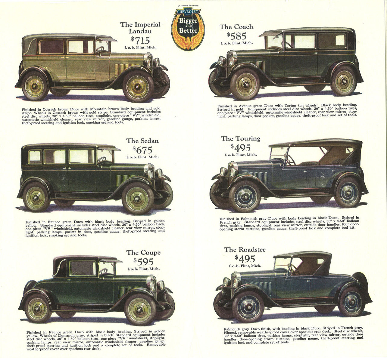 Chevrolet advertisement for several models produced by the company.